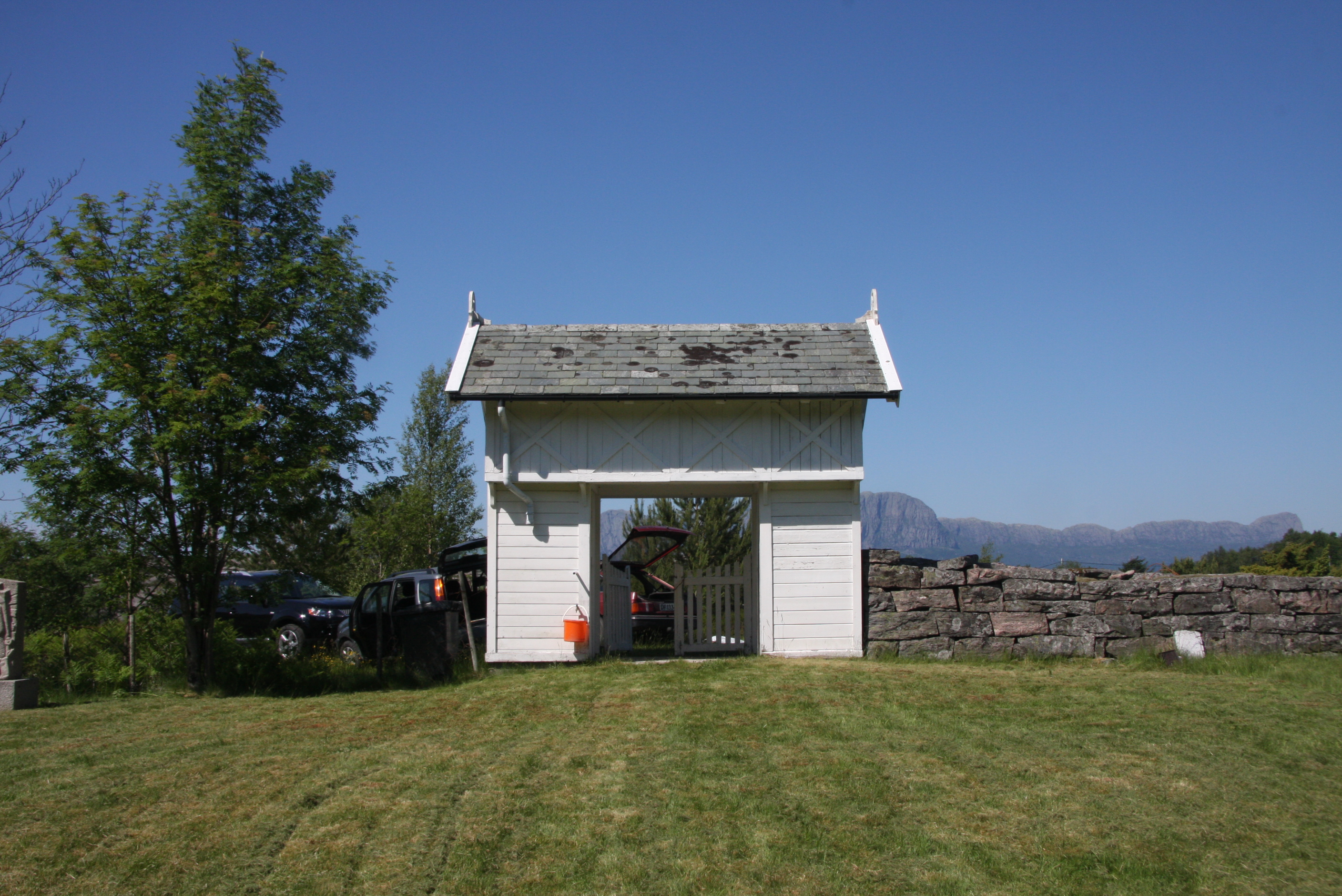 Rutle in Gulen municipality, Norway.